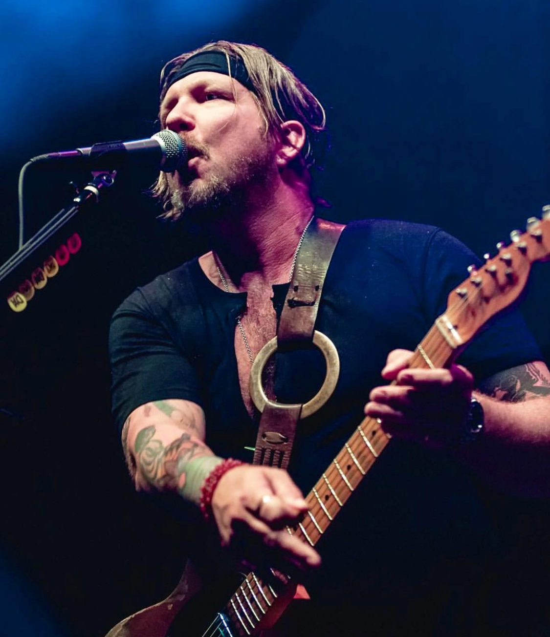 Devon Allman, May 28, 2018, at Brooklyn Bowl, Las Vegas, NV.